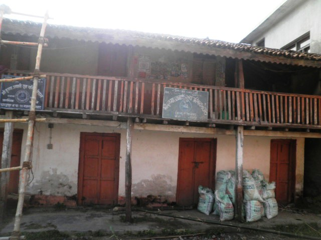 Front view of old temple.